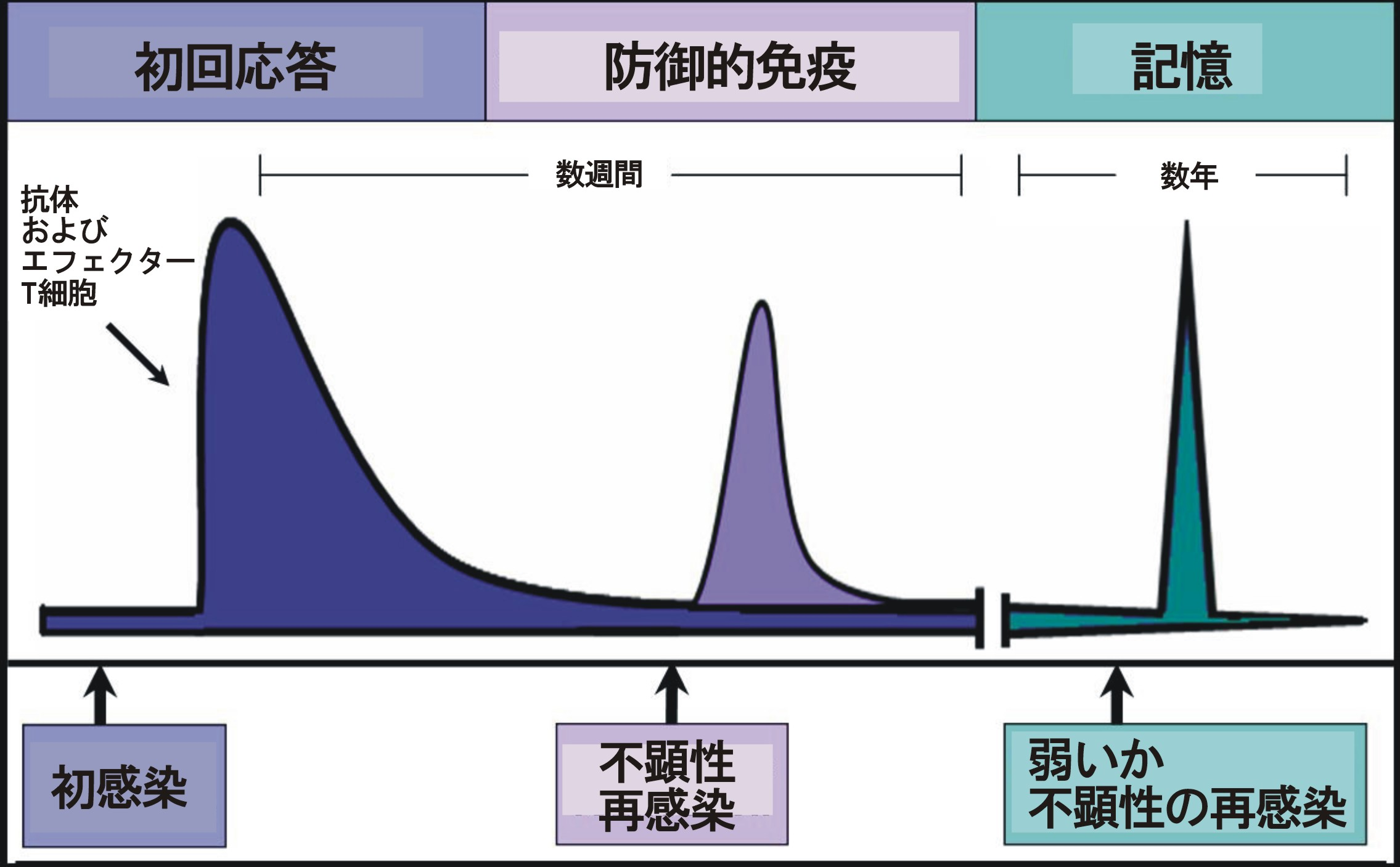 The time course of an immune response. Immune reactants, such as antibodies and effector T-cells, work to eliminate an infection, and their levels and activity rapidly increase following an encounter with an infectious agent, whether that agent is a pathogen or a vaccine. For several weeks these reactants remain in the serum and lymphatic tissues and provide protective immunity against reinfection by the same agent. During an early reinfection, few outward symptoms of illness are present, but the levels of immune reactants increase and are detectable in the blood and/or lymph. Following clearance of the infection, antibody level and effector T-cell activity gradually declines. Because immunological memory has developed, reinfection at later time points leads to a rapid increase in antibody production and effector T cell activity. These later infections can be mild or even inapparent.